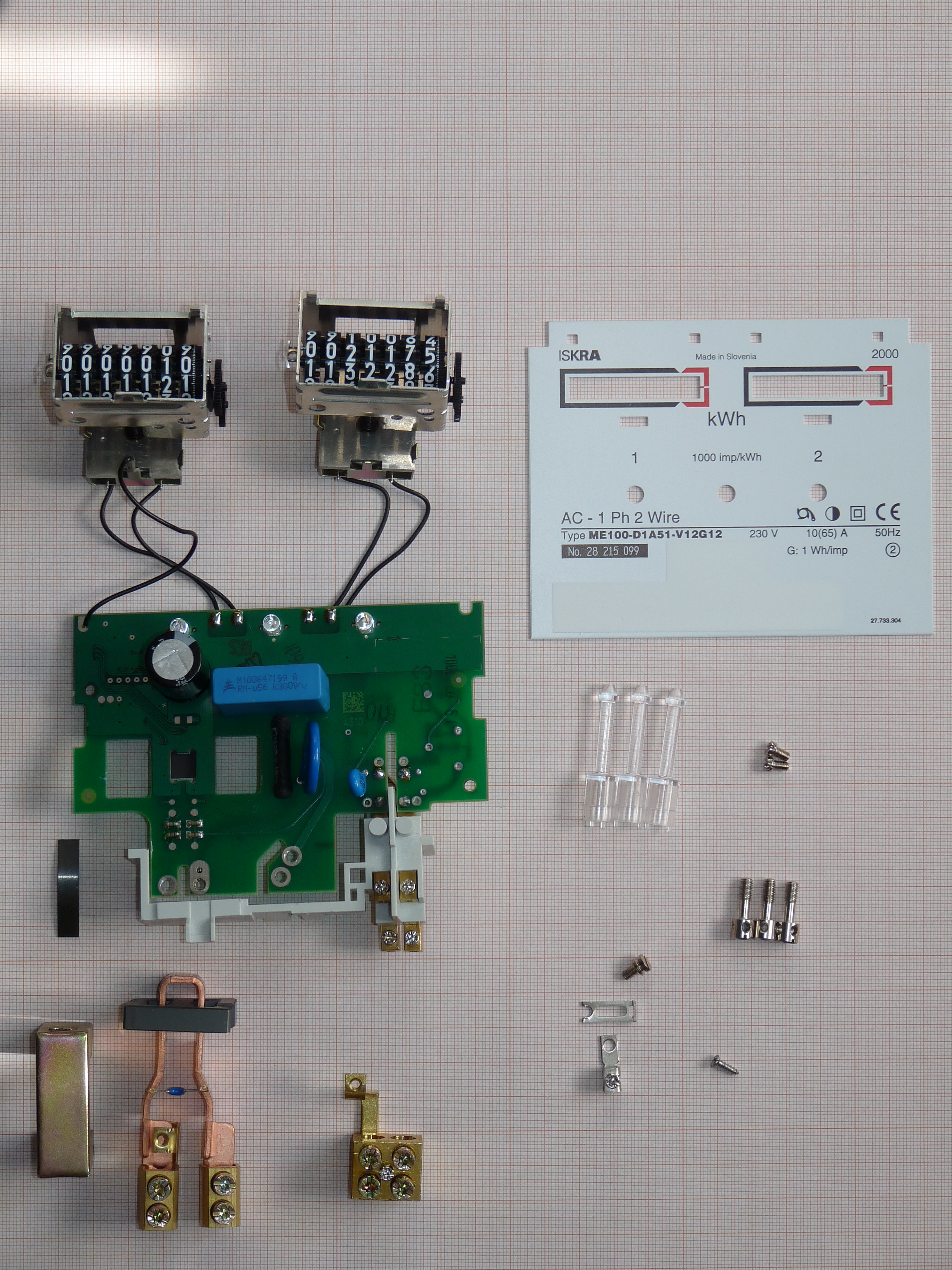 electronic electricity meter on PIC16C620A controller